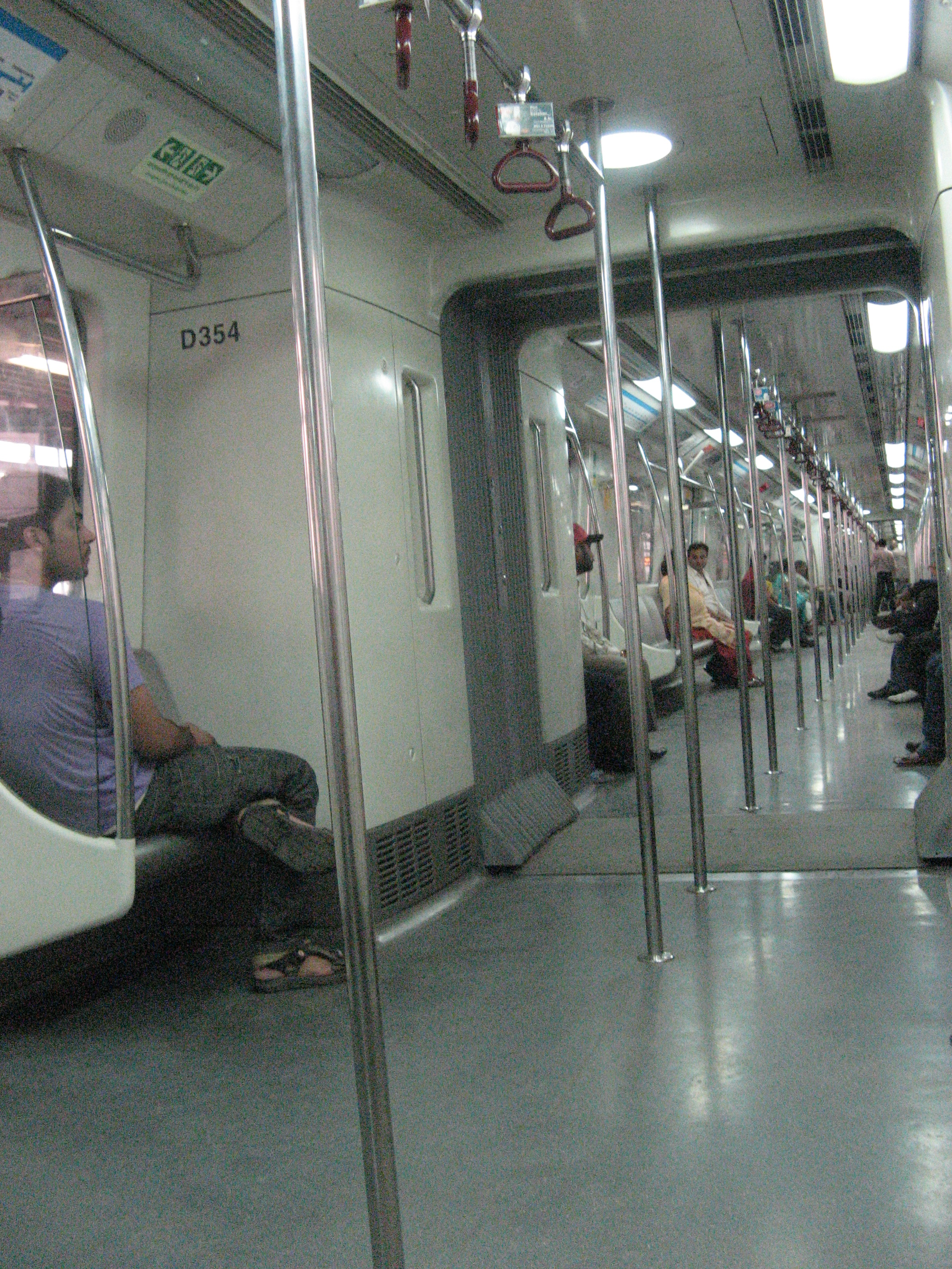 Inside Delhi Metro train